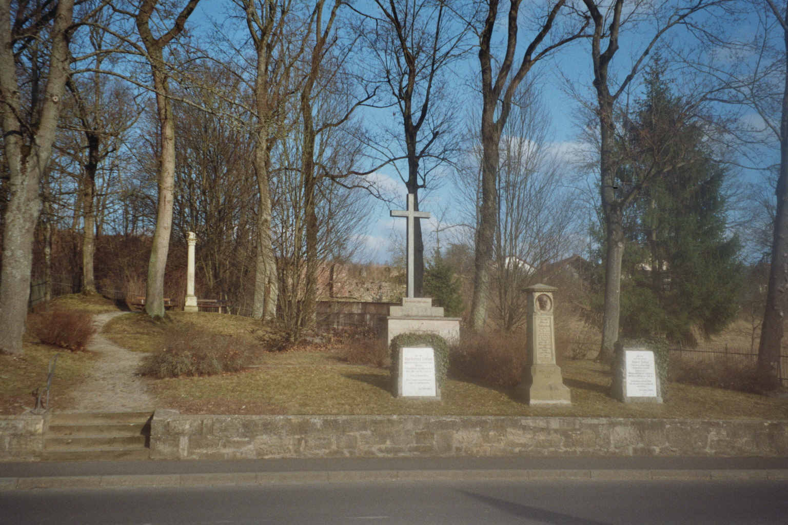 Grave of German officer Eduard Schlagintweit in Hausen, a quarter of the German spa town of Bad Kissingen (Lower Franconia, Bavaria).